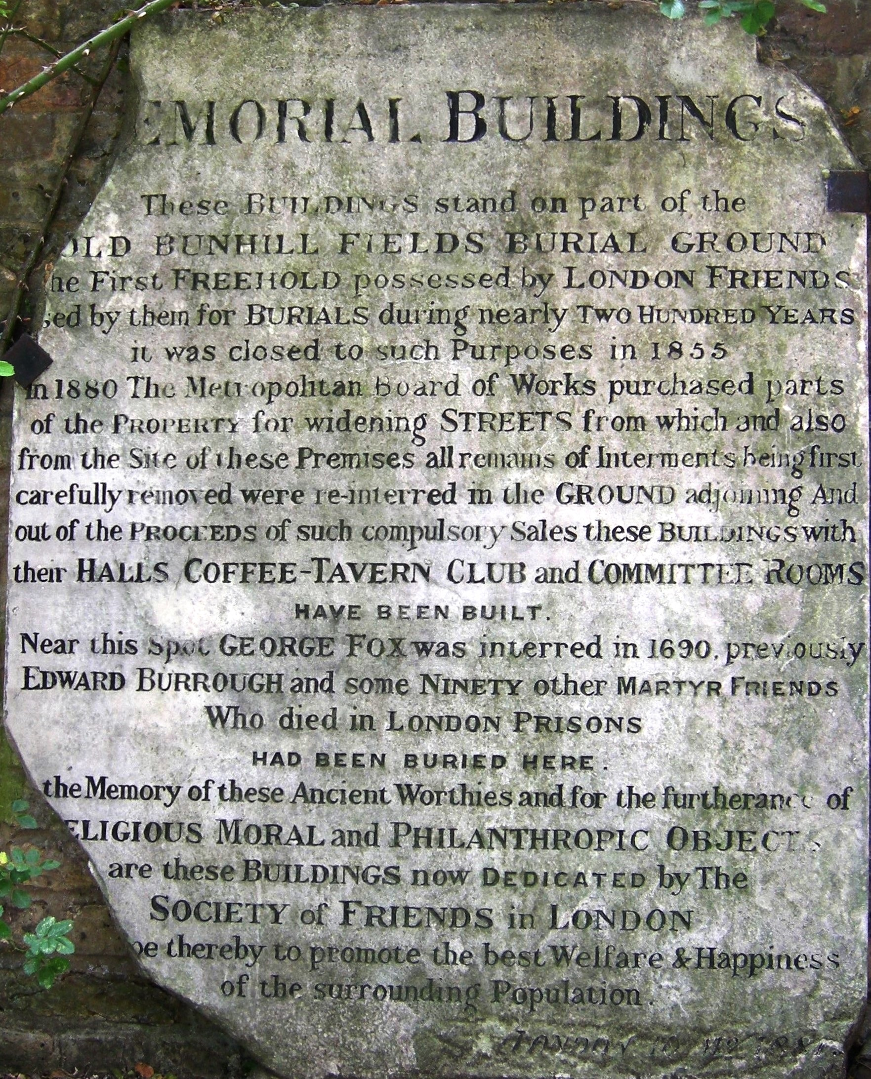 Plaque from the former Bunhill Memorial Buildings (built 1881) now preserved on the west wall of Quaker Gardens, Chequer Street, London EC1, outlining the history of the site.